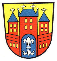 old coat of arms of the city of Warburg